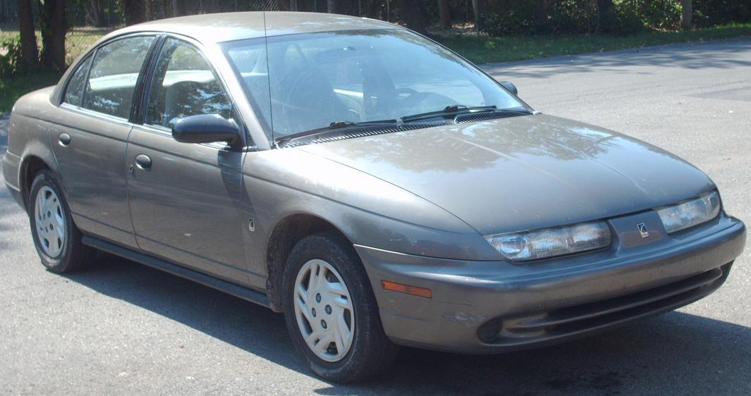 2000-2002 Saturn SL photographed in Montreal, Quebec, Canada.